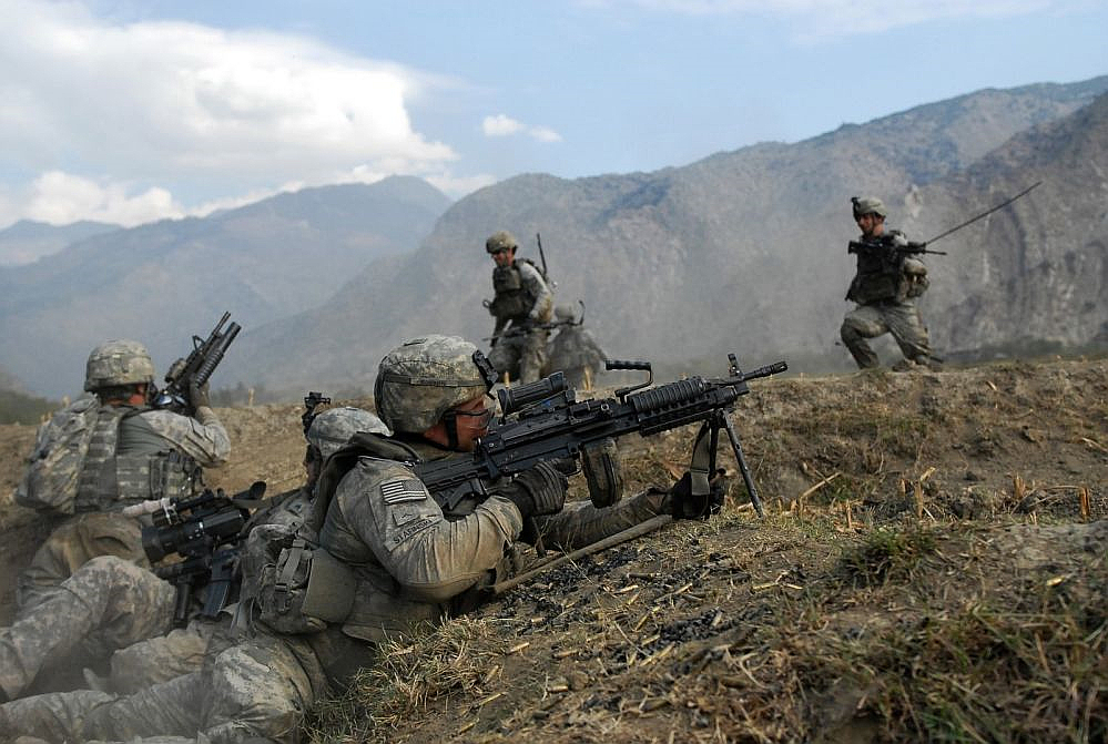 091103-A-1211M-015 KUNAR PROVINCE, Afghanistan – U.S. Army soldiers from Charlie Company, 2nd Battalion, 12th Infantry Regiment, watch the surrounding hills for insurgents while fellow soldiers of the company race to their positions dodging heavy sniper fire during a three-hour gun battle at Waterpur Valley, in Kunar province, Afghanistan, on Nov. 3, 2009.